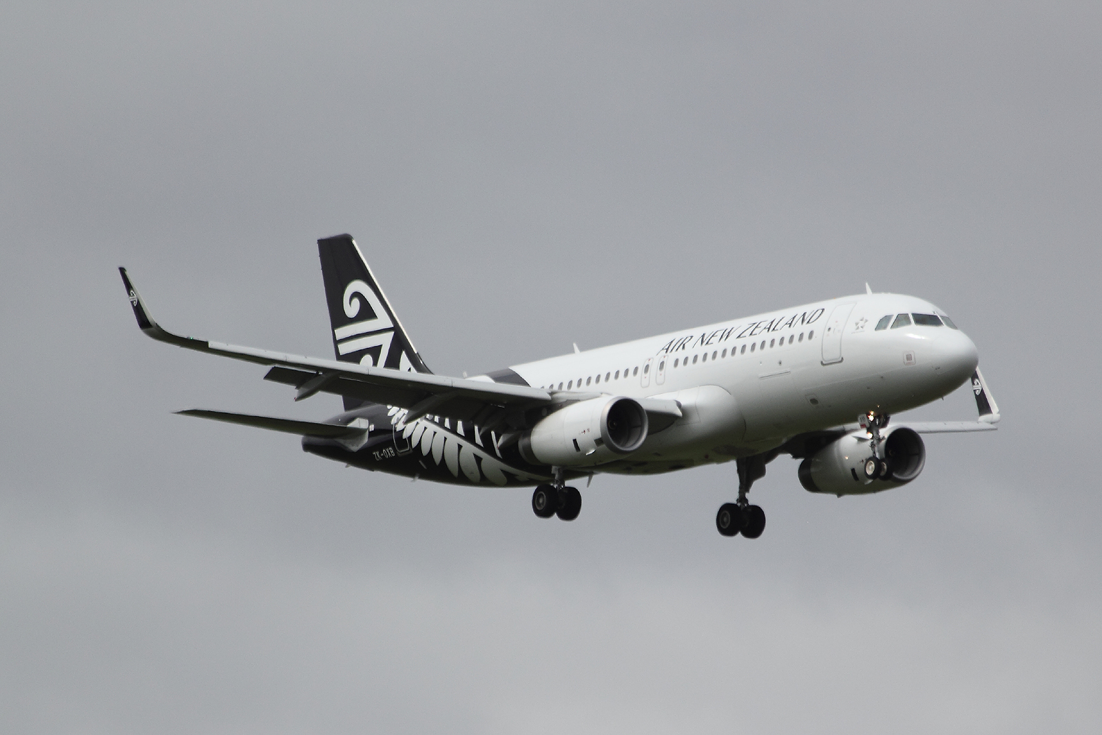 ZK-OXB Airbus A320-232 (5682), Air New Zealand, 27 September 2013 - Auckland